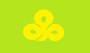 Flag of Mikawa Yamagata